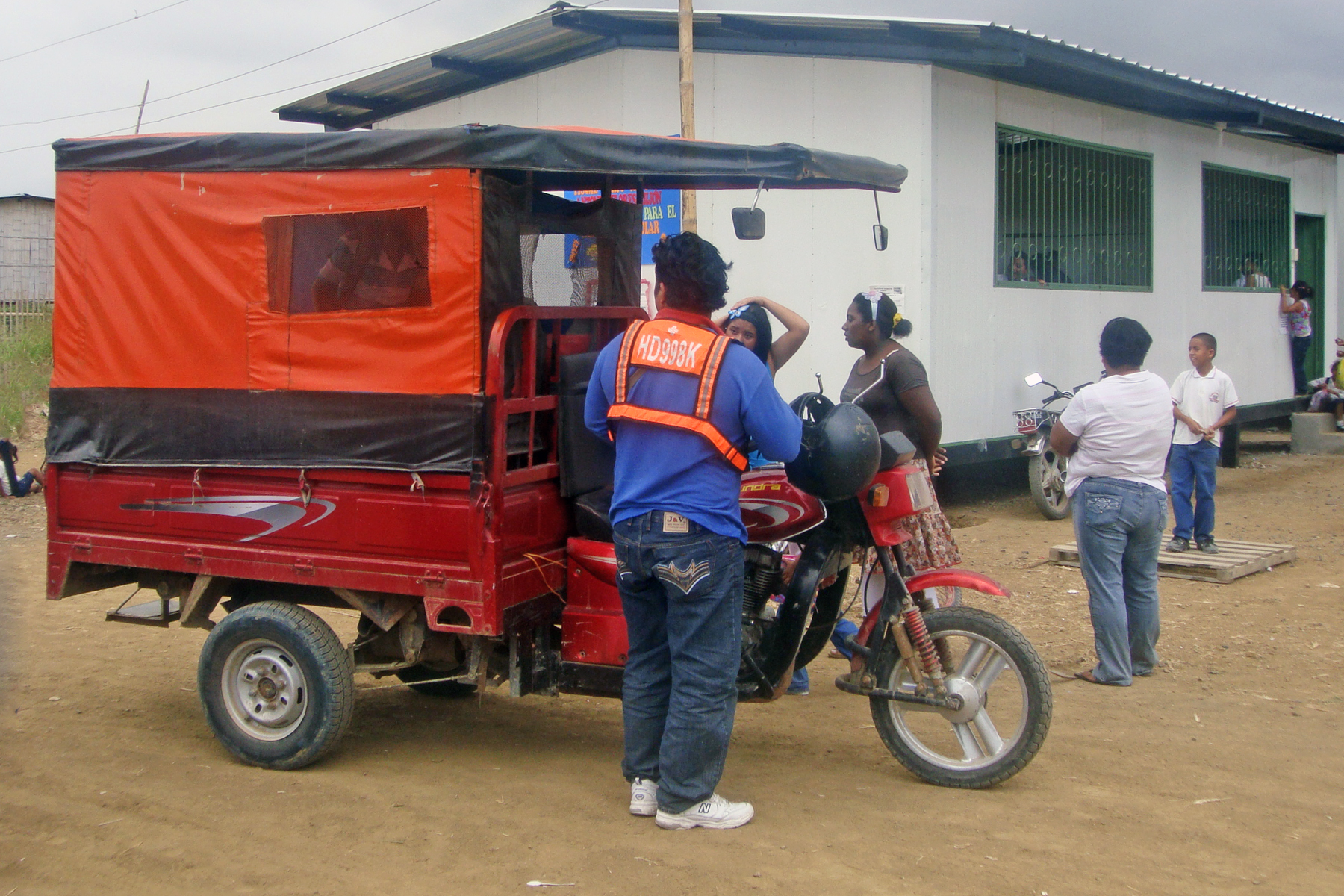 Home-made conversion mototaxi in Guayaquil, Ecuador